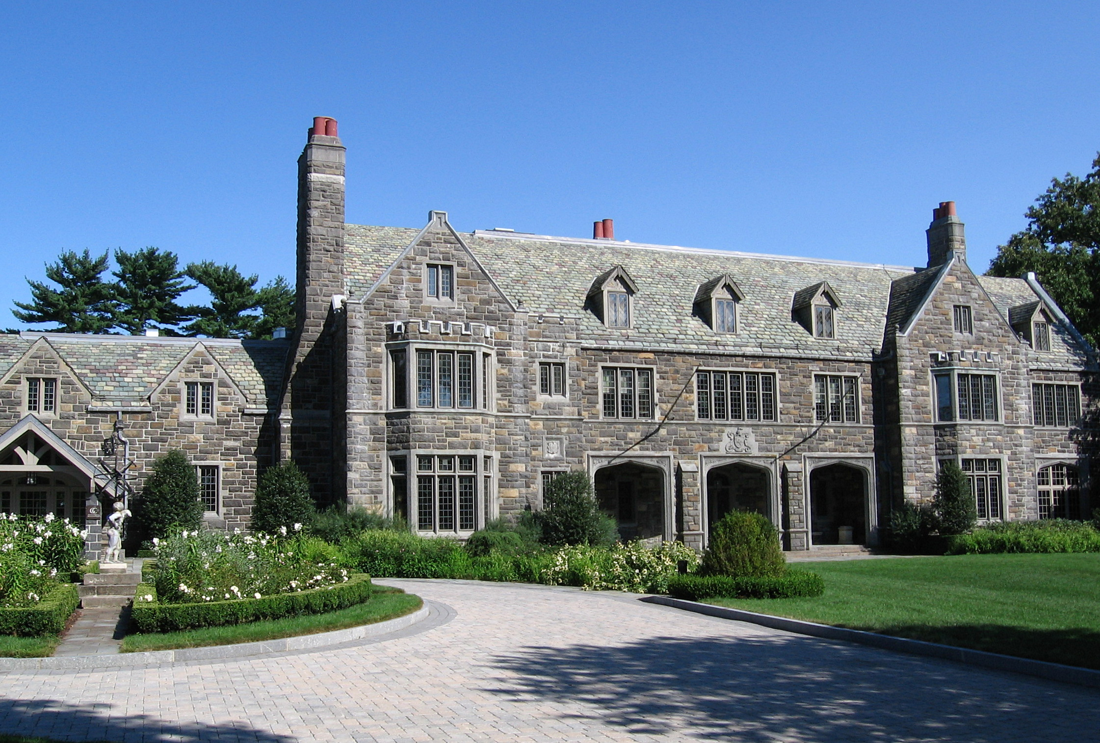 Rock Ledge mansion, in the Rowayton section of Norwalk, Connecticut. The building, erected by a steel magnate, is now an office building.